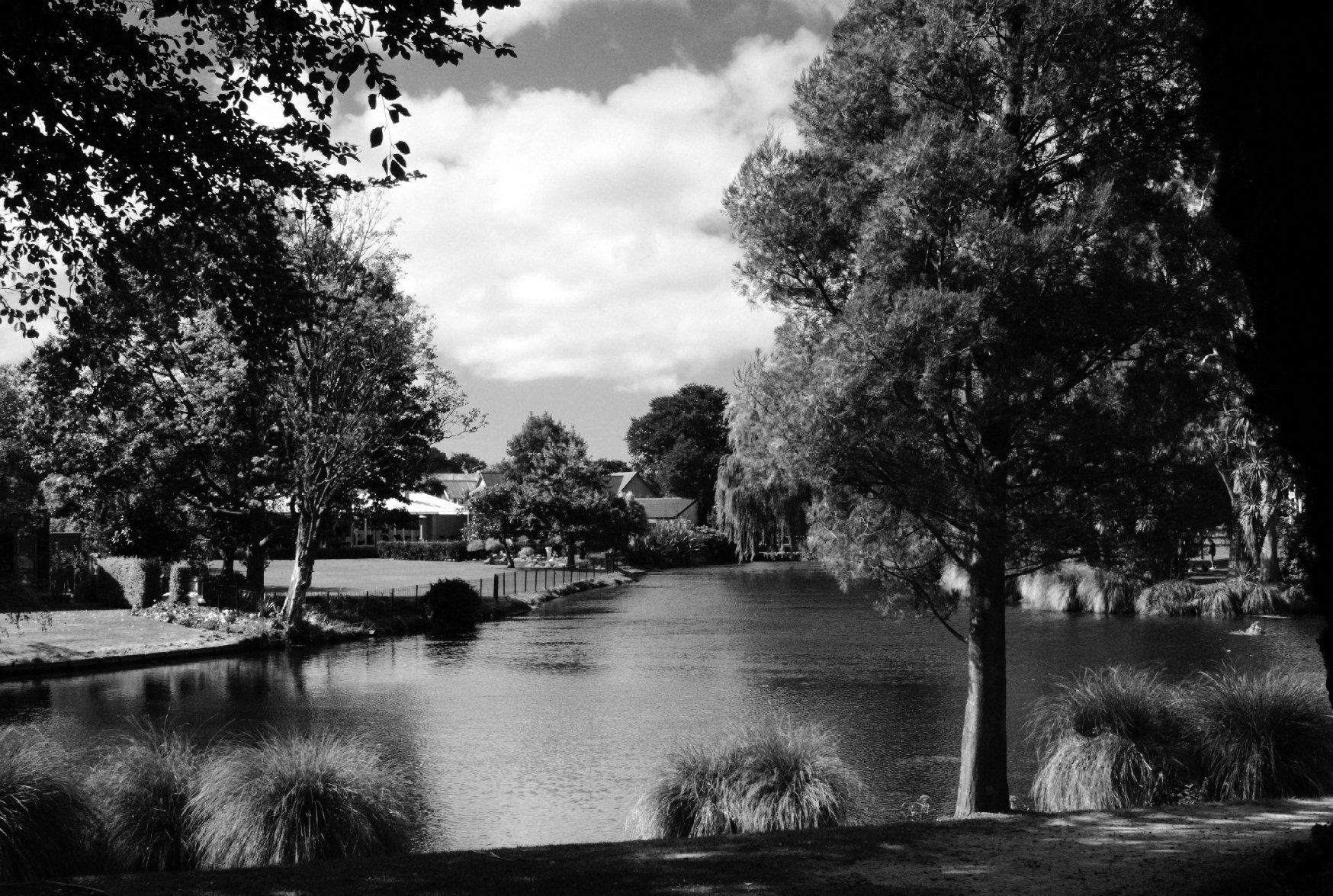 Mona Vale public park in Christchurch. Avon River, looking downstream.